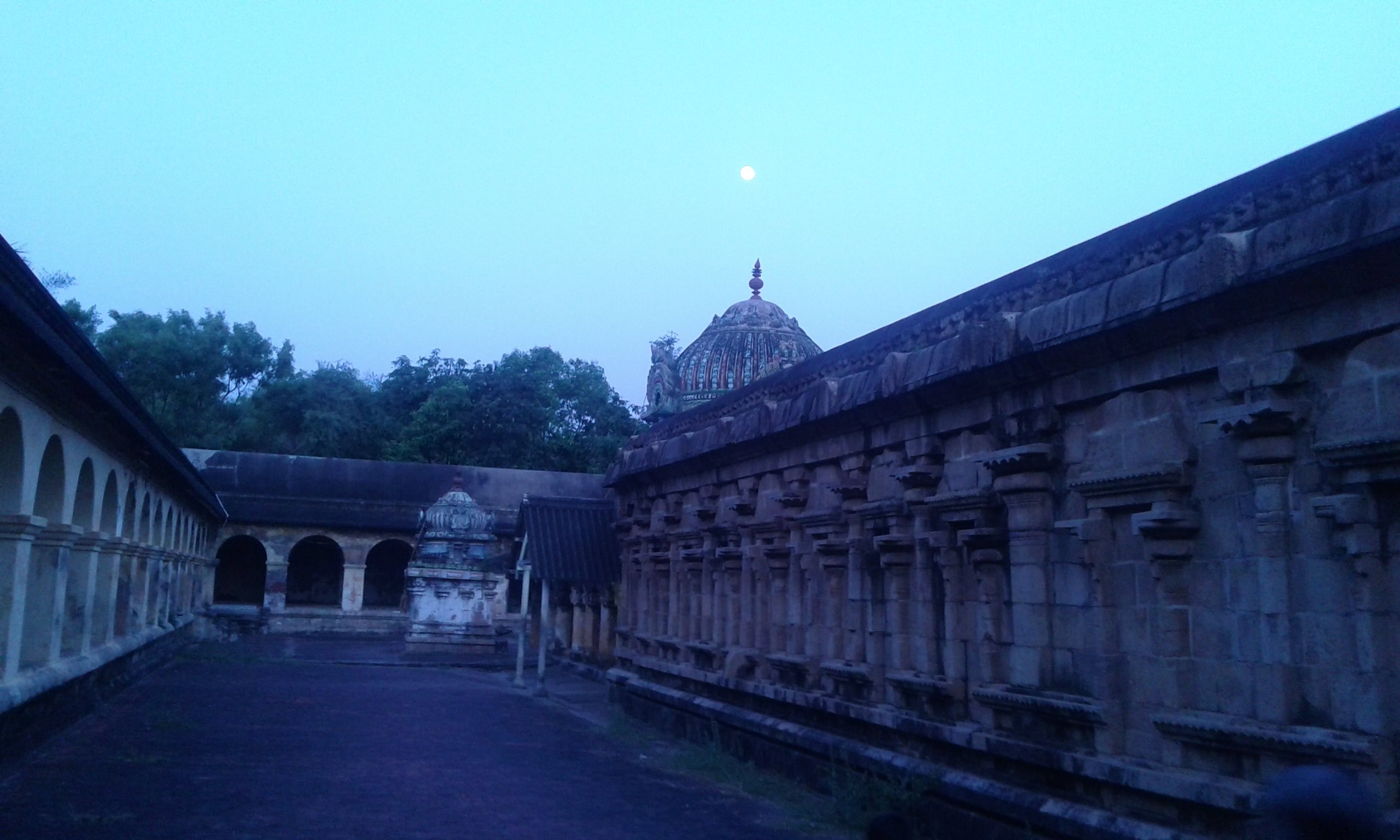 Therazhunthur